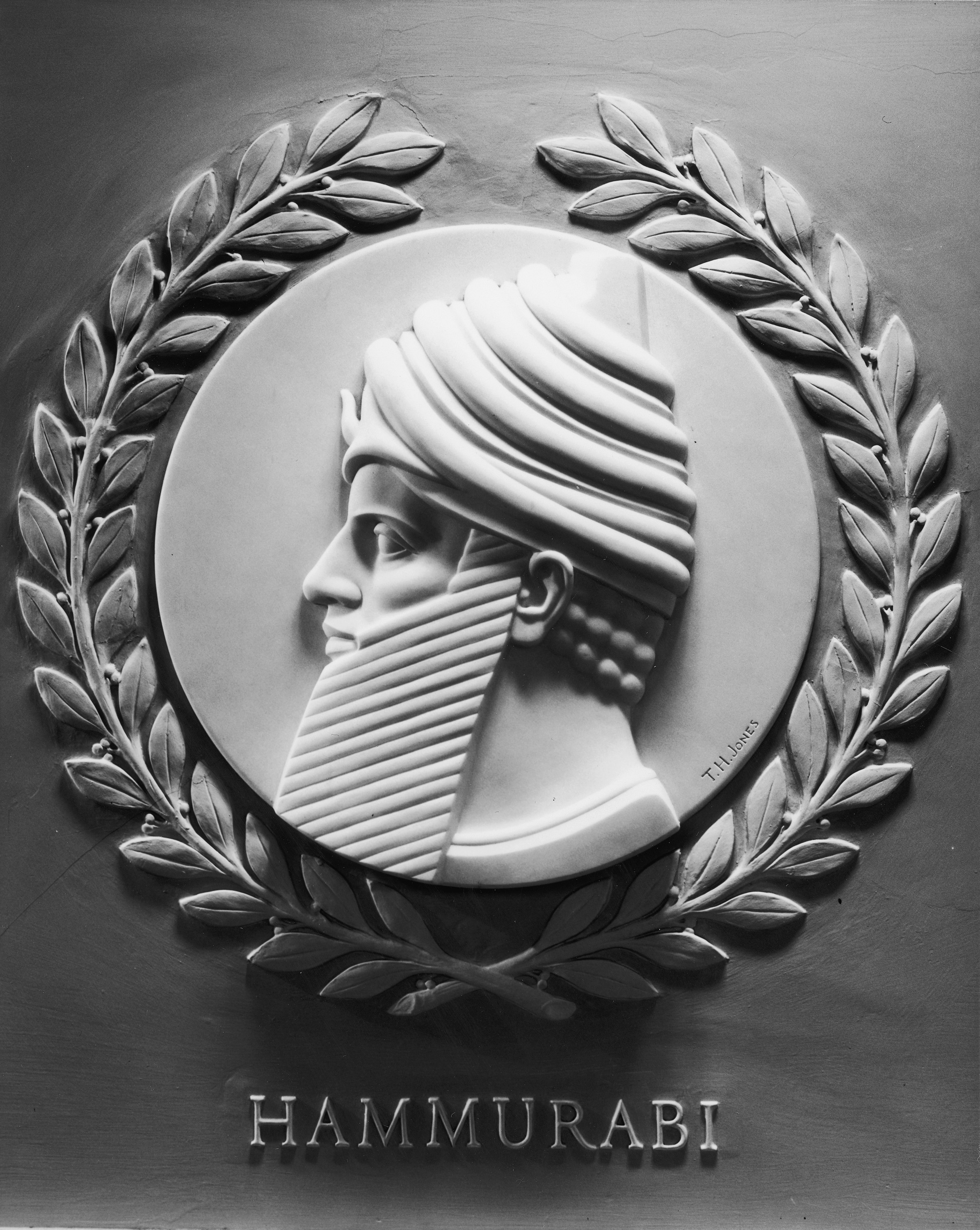 King of Babylonia; author of the Code of Hammurabi, which is recognized in legal literature as one of the earliest surviving legal codes. Thomas Hudson Jones Marble, 28" dia. 1950 House of Representatives Chamber This official Architect of the Capitol photograph is being made available for educational, scholarly, news or personal purposes (not advertising or any other commercial use). When any of these images is used the photographic credit line should read “Architect of the Capitol.” These images may not be used in any way that would imply endorsement by the Architect of the Capitol or the United States Congress of a product, service or point of view. For more information visit